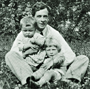 Julian Huxley and his sons